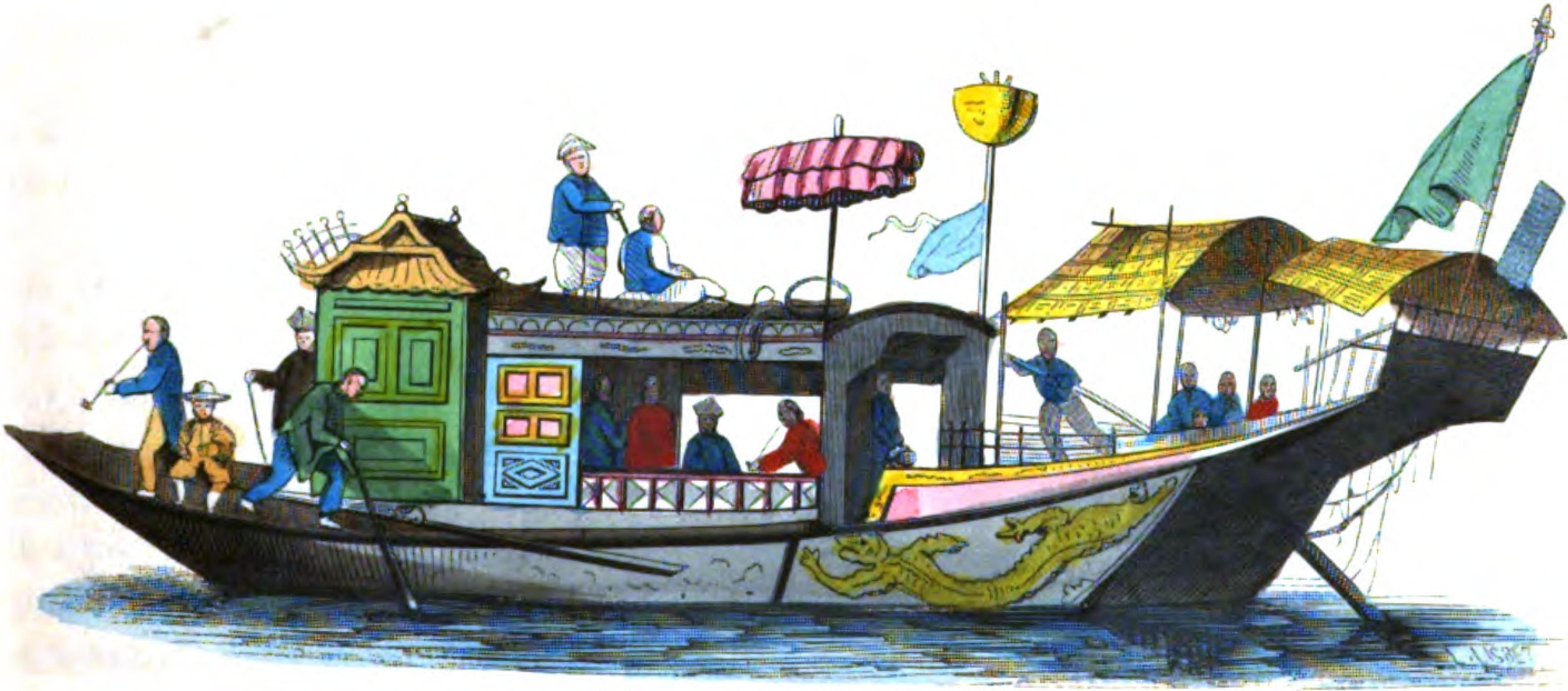 Auguste Wahlen, Moeurs, usages et costumes de tous les peuples du monde, Volume 1. Publisher La Librairie historique-artistique, 1843